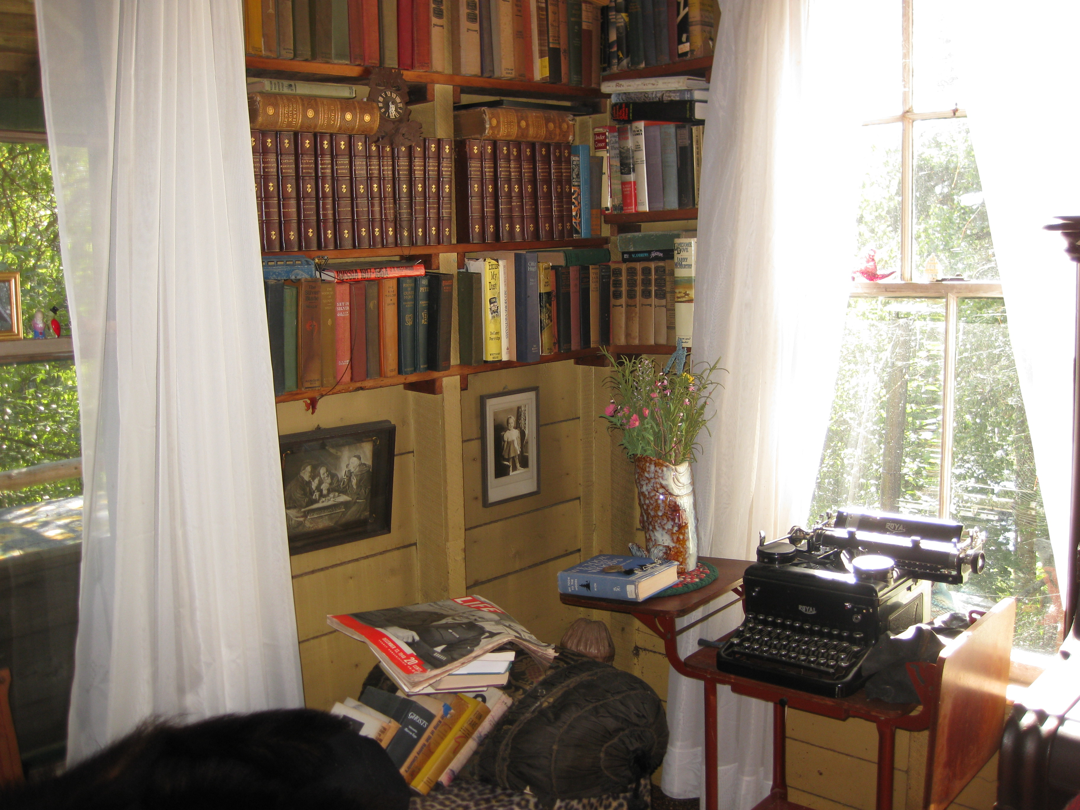 Forest Lodge